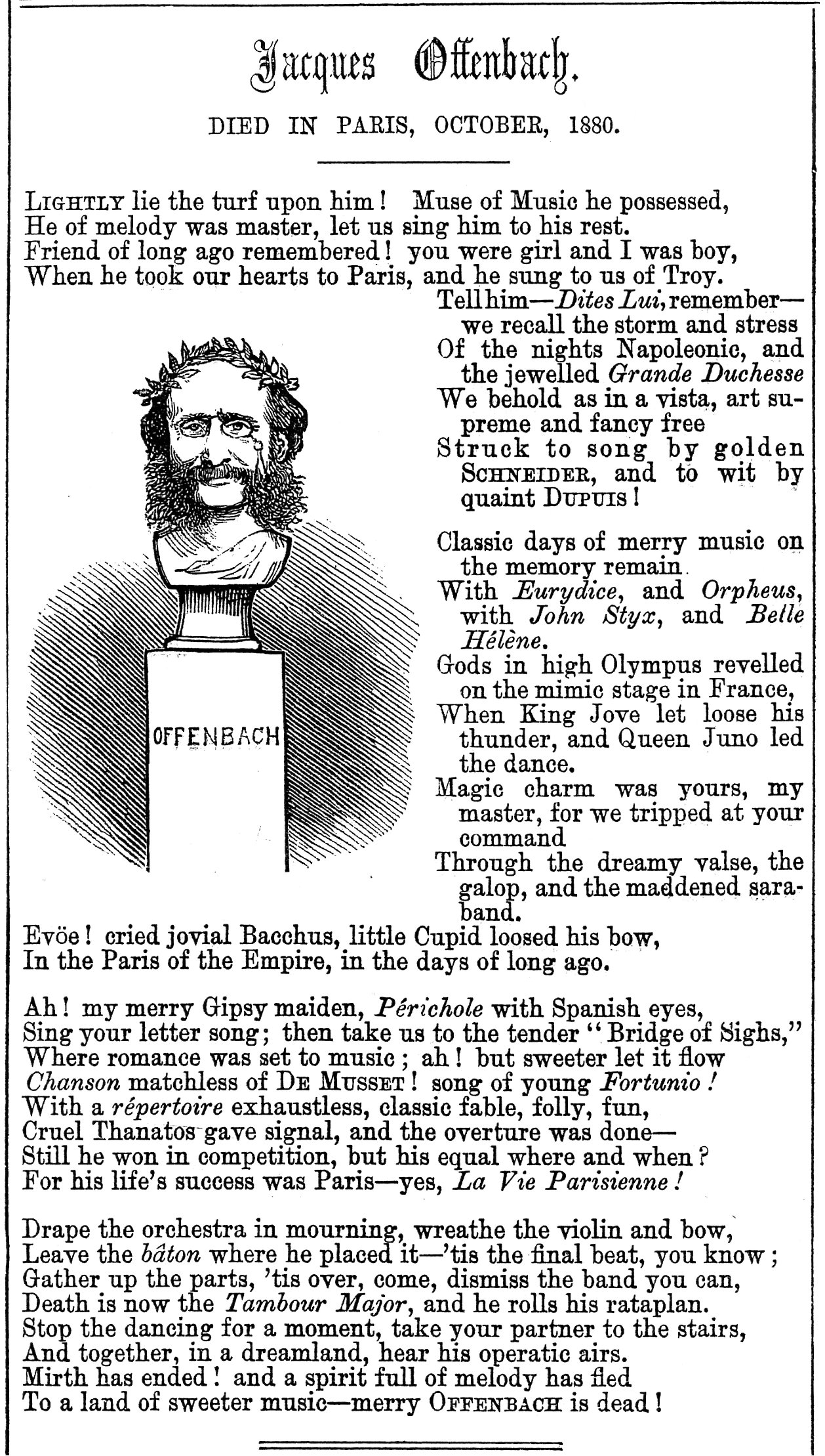 Elegy to Jacques Offenbach in the illustrated English magazine, Punch.